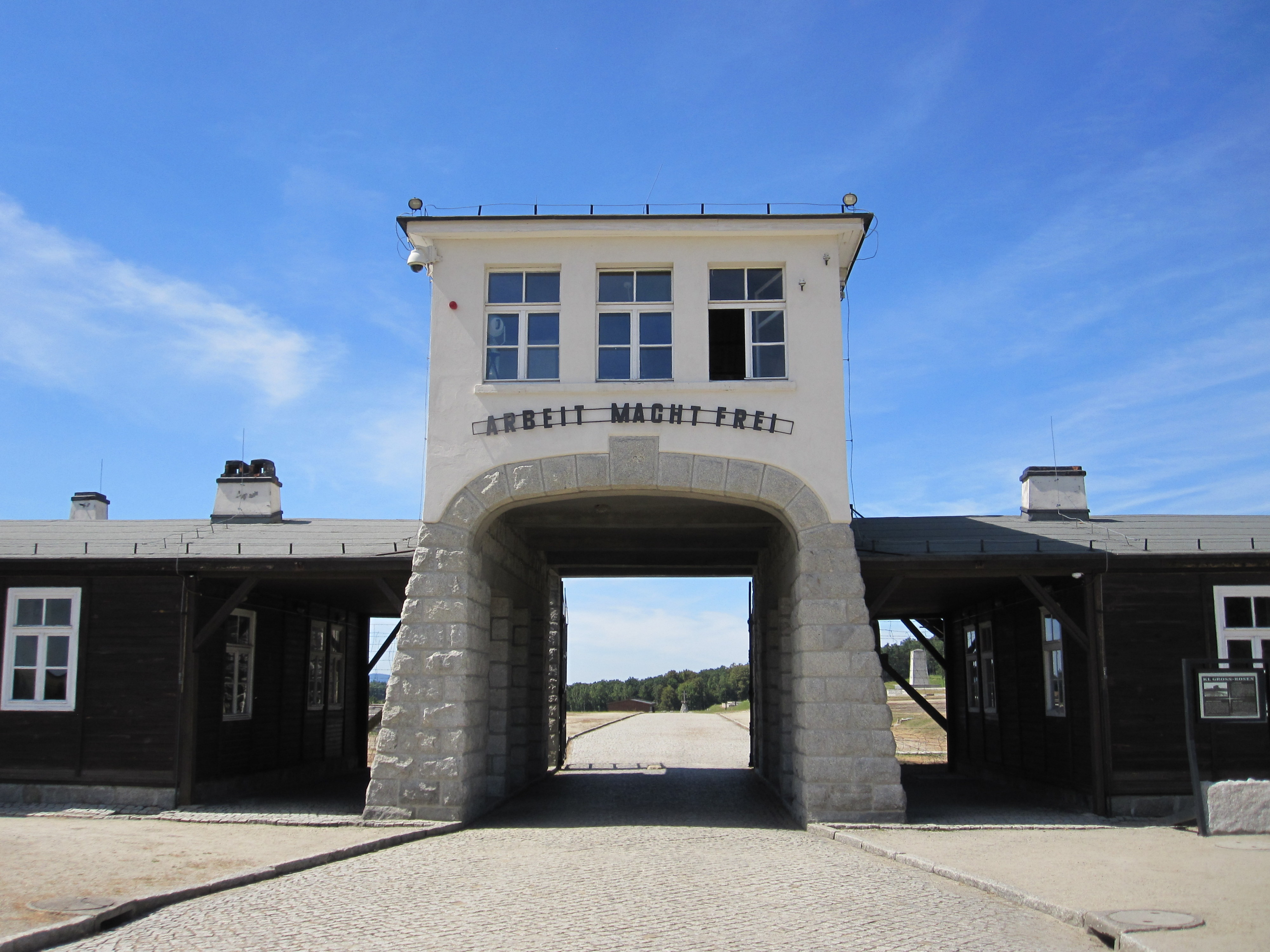 The entrance gate to the camp Gross-Rosen